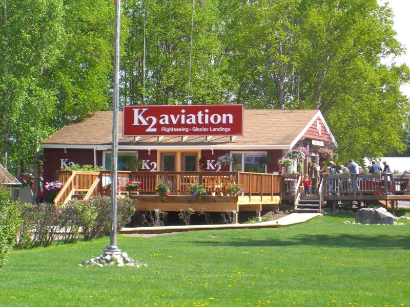 K2 Aviation in Talkeetna where we caught a flight to Ruth Glacier at Denali.